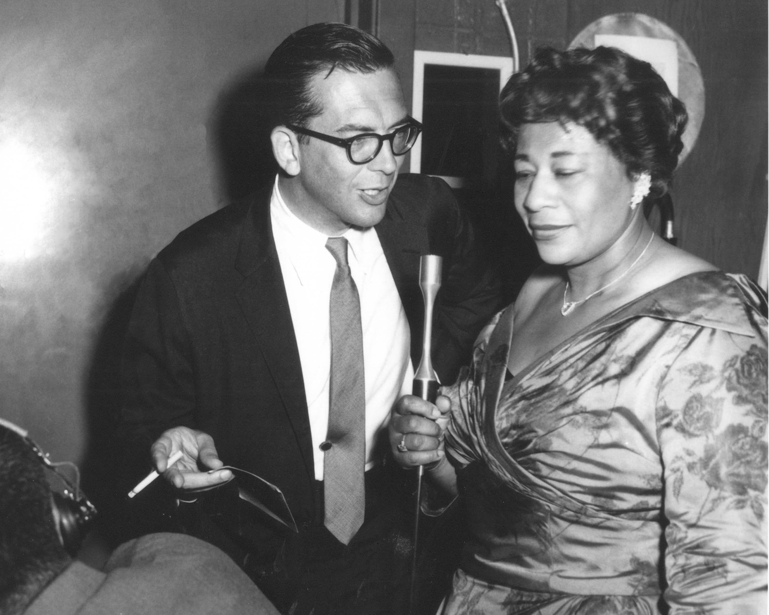 Willis Conover with Ella Fitzgerald